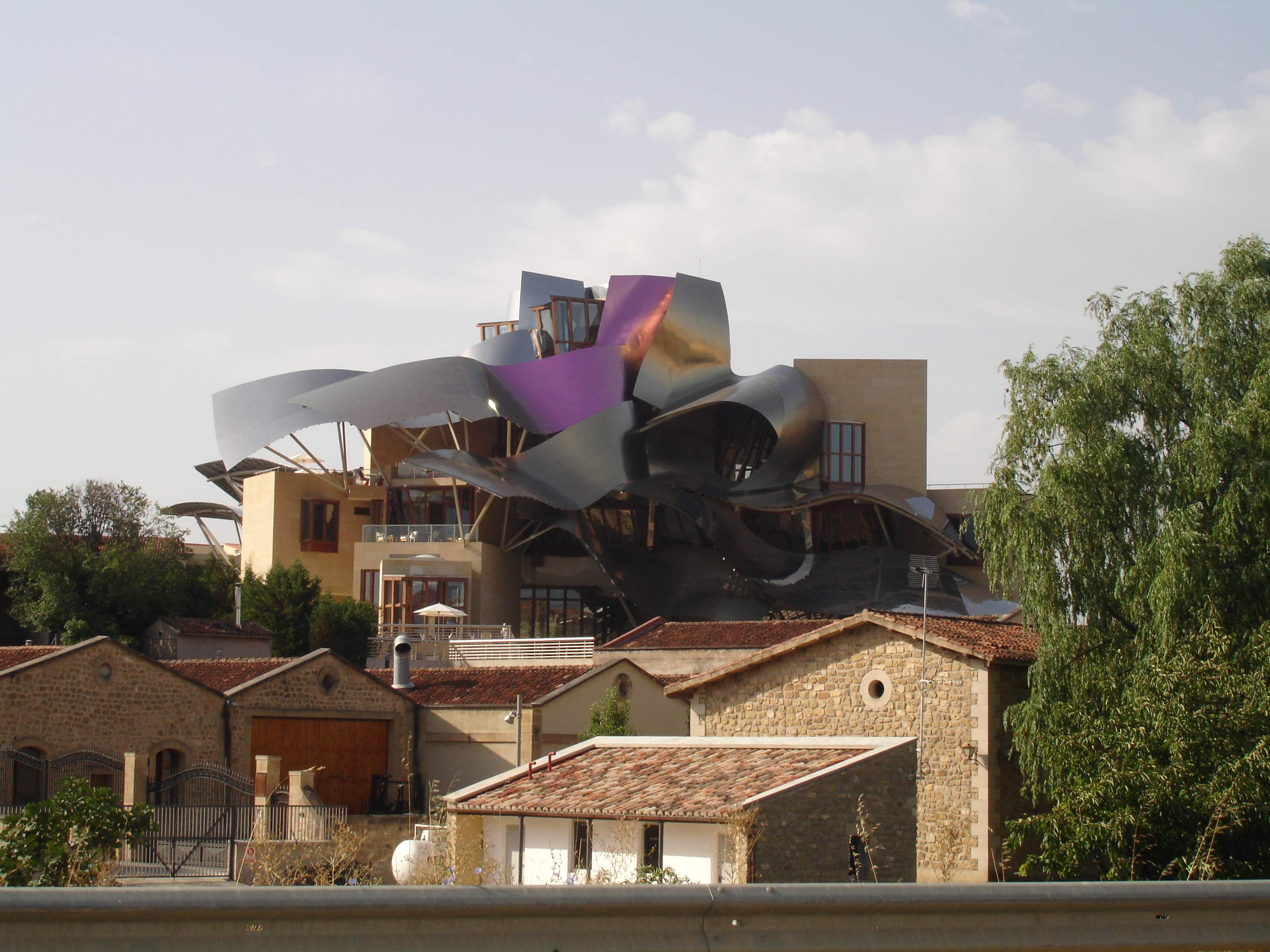 Marqués de Riscal wine cellar and hotel in Elciego, Álava, Spain (by architect Frank Gehry)